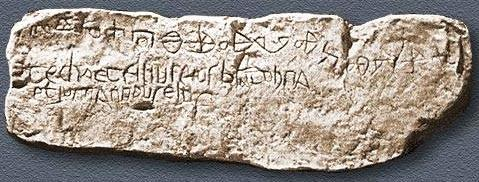 Image of Valun tablet, 11th century Croatian Glagolitic monument.